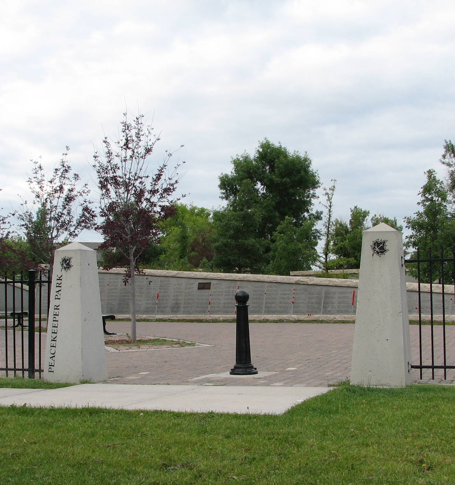 Entrance to Peacekeeper Park in Calgary taken on 14 August 2010.